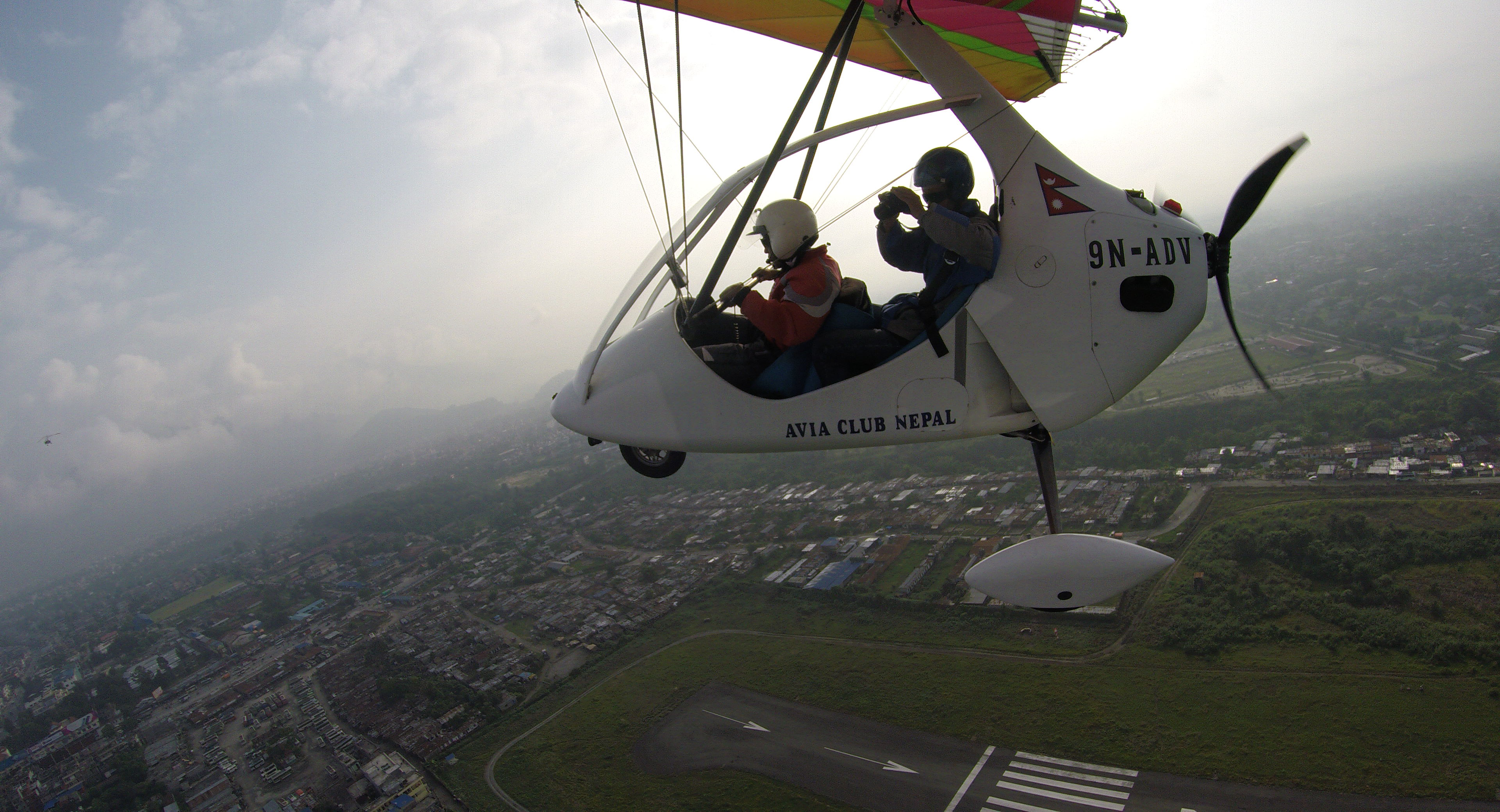 Altralight Aircraft in Pokhara.